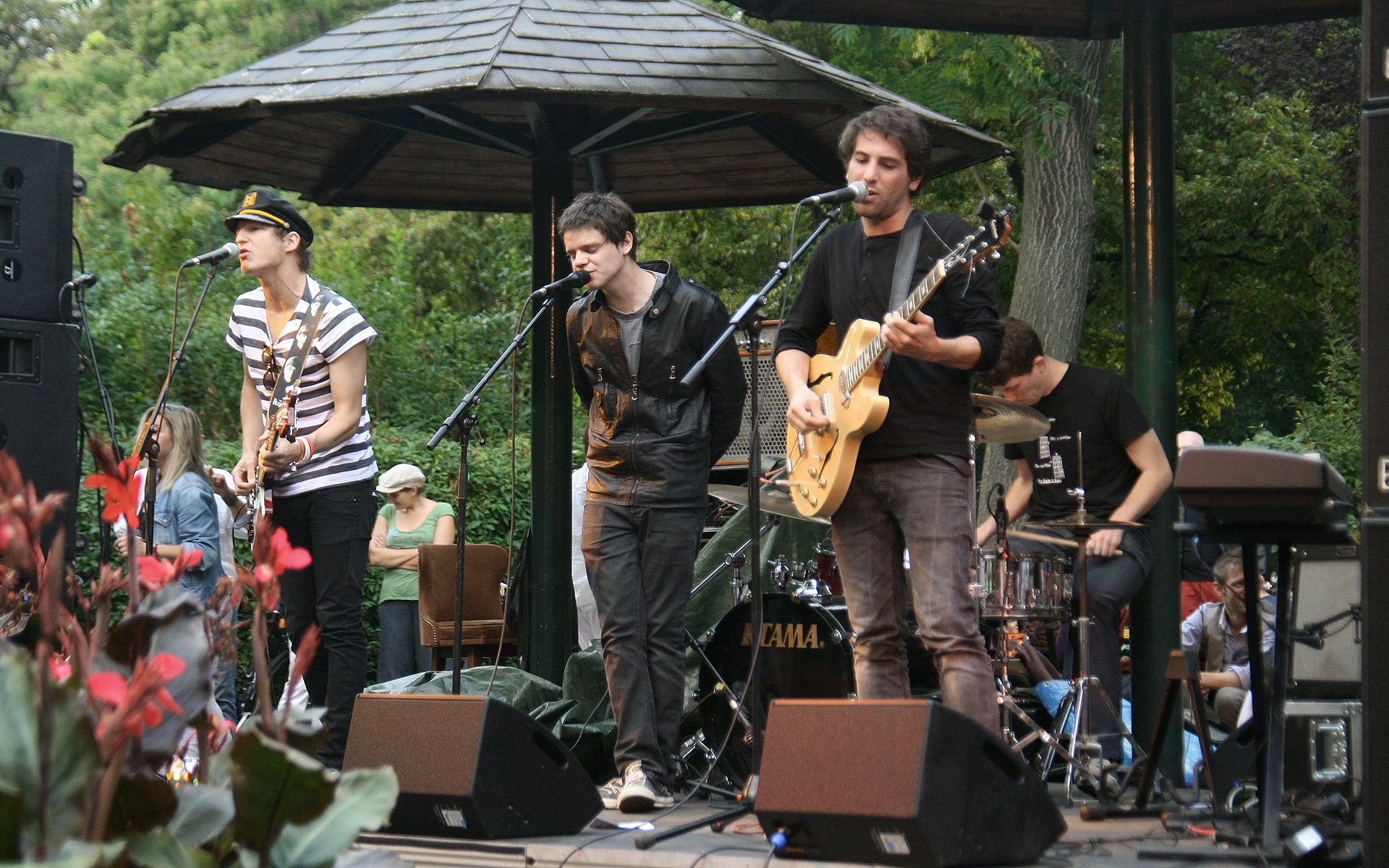 Der Nino aus Wien - concert at the Stadtpark in Vienna.